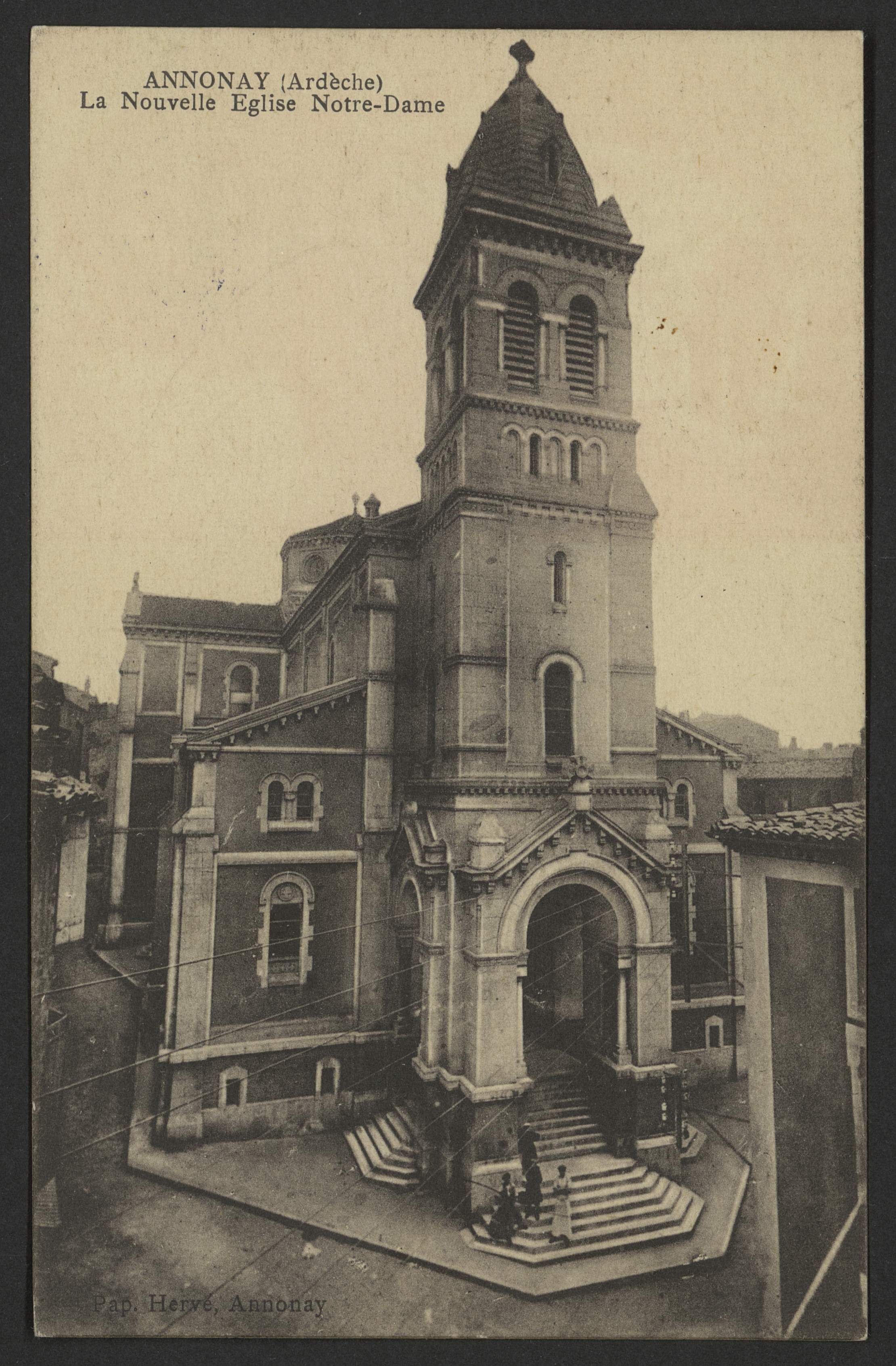 Bâtiments religieux Ardèche